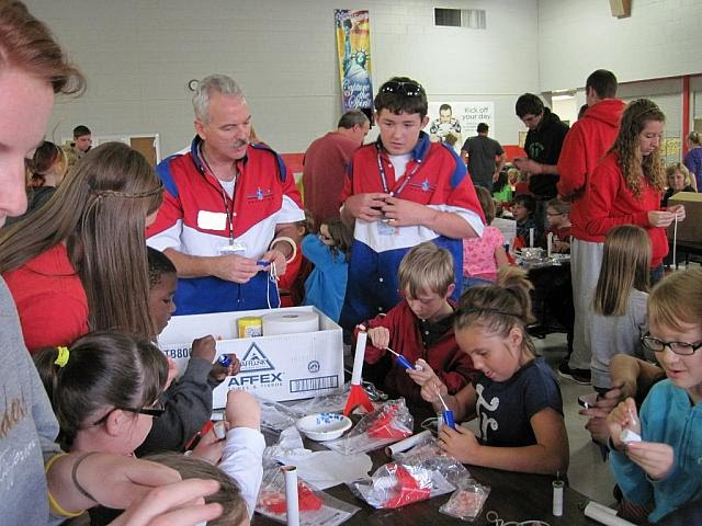 Members of the National Association of Rocketry mentor elementary school students during a rocket building session.